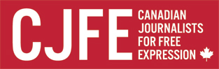 This is a logo for Canadian Journalists for Free Expression (CJFE)